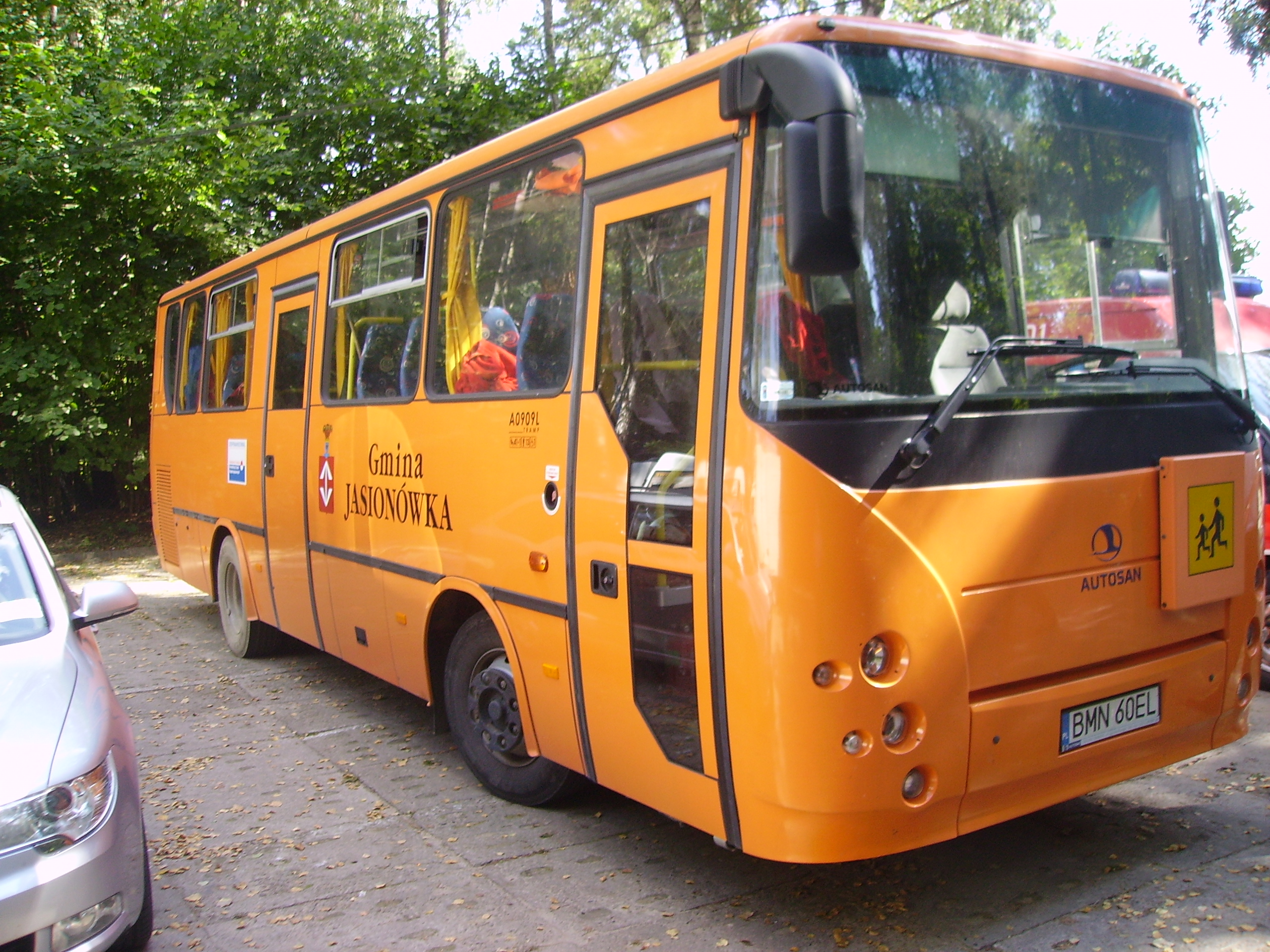 Autosan A0909L.05.S Tramp school bus (reg. BMN 60EL) in Gmina Jasionówka, Podlaskie Voivodeship, Poland. Built 2009, Urząd Gminy Jasionówka operator. Youth Brass Band of Jasionówka, Poland.